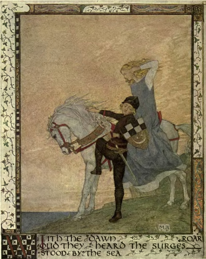 Illustration for Aucassin et Nicolette (1910) by Maxwell Armfield / Bibliography : Eugene Mason (Editor & translator) (ill. Maxwell Armfield), Aucassin and Nicolette, London ; New York, J.M. Dent & Sons, Ltd. ; E.P. Dutton & Co., coll. « Some tales of old romance series », 1910, VIII-72 p., 6 p. ill. in color ; 19 cm (OCLC 12587228)